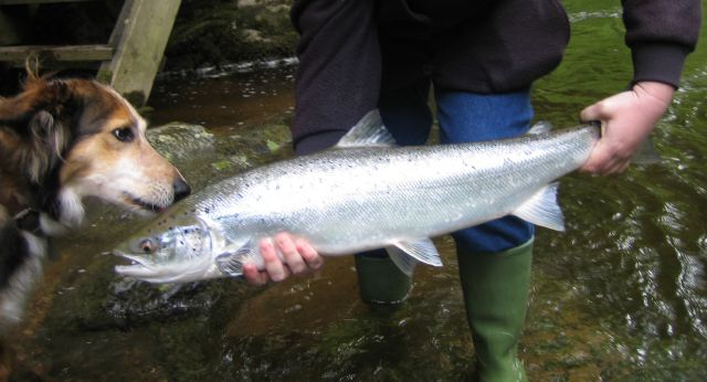 Atlantic Salmon. An angler about to return a salmon to the river. The fast, clear unpolluted waters of the river Lyn are ideal habitat for salmon. Sadly the numbers of fish returning to the river are not what they should be. Many factors are involved, most notably over fishing at sea (both legal and illegal, mostly off the Irish coast). To help maintain stocks many anglers now return most salmon that they catch throughout the season. By law all salmon caught in England and Wales before June 16th must be returned. Climate change leading to low flows in rivers could spell the end for salmon in southern England, especially in those rivers in populated areas where there is heavy abstraction of water for human consumption/industrial use.